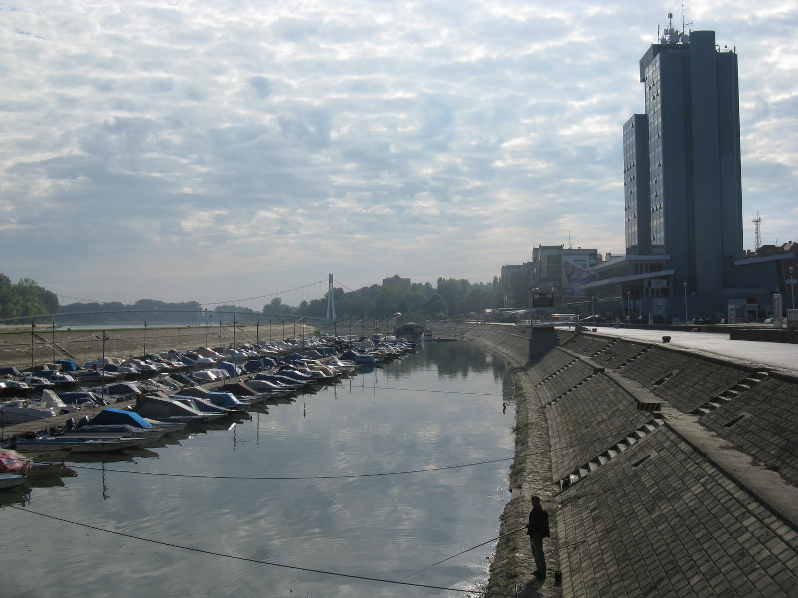 Winter port on the Drava and the Hotel Osijek, Croatia.